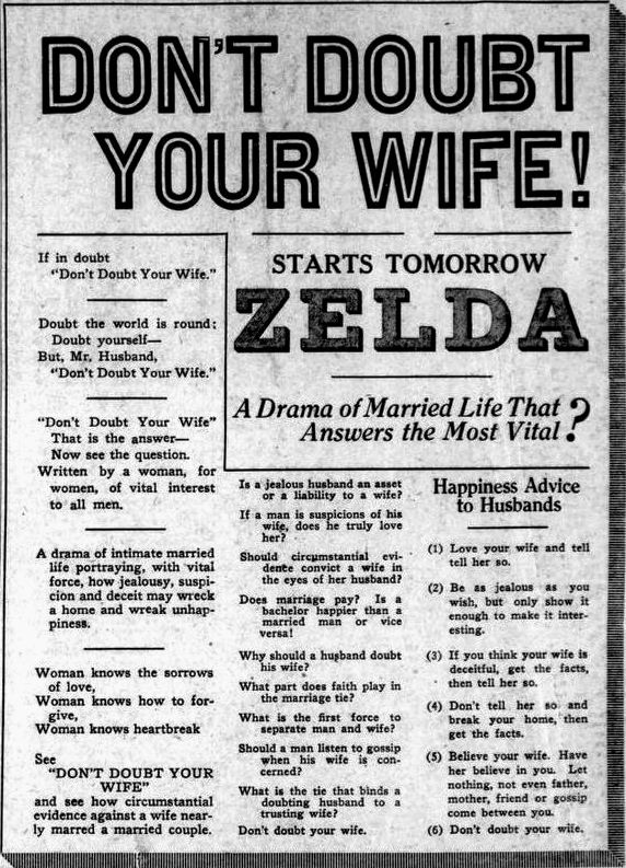 Newspaper advertisement for the American film Don't Doubt Your Wife (1922), written as advice to husbands, on page 12 of the April 21, 1922 Duluth Herald.